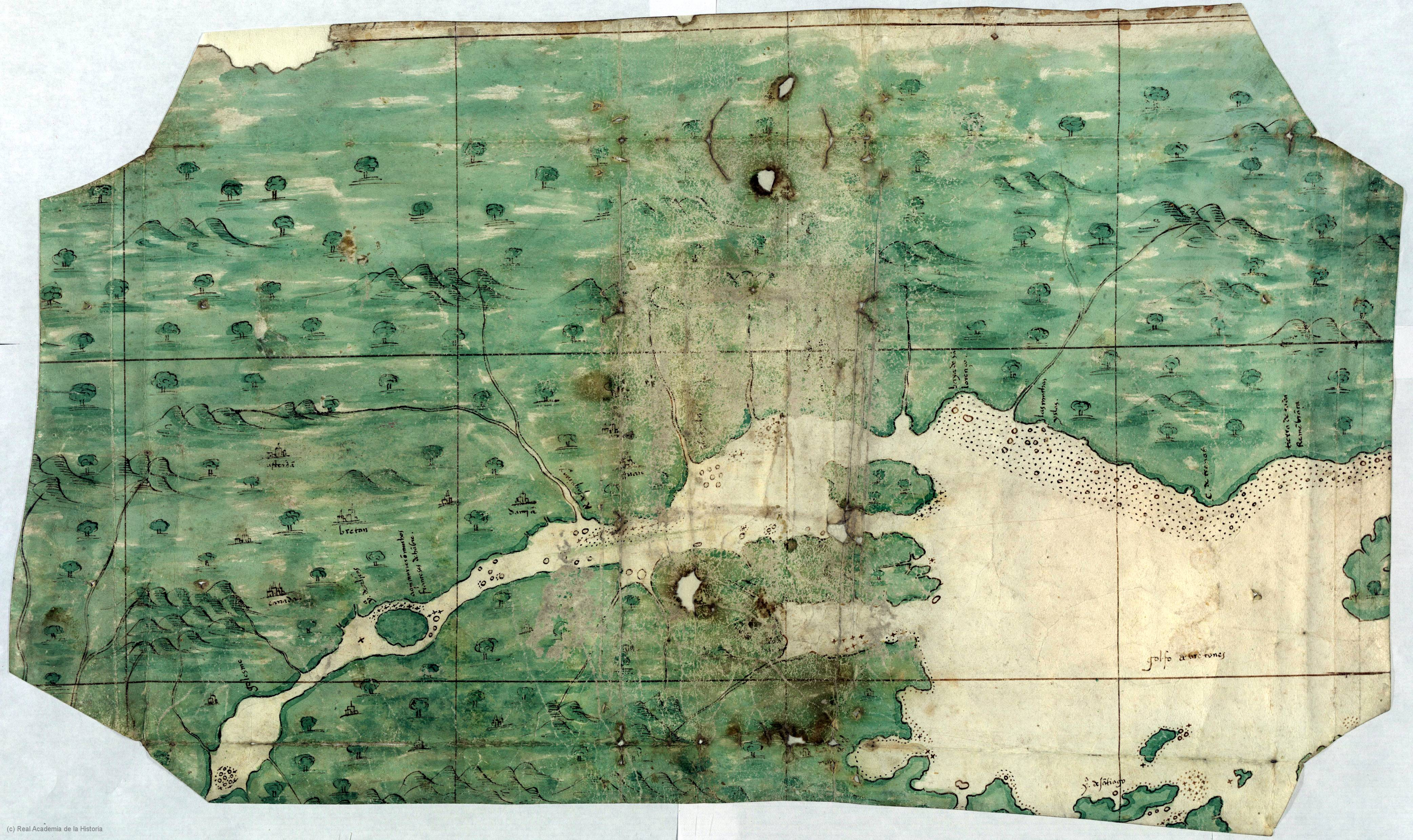 Map of the Saint Lawrence river region (in today's Canada) made in Spain in the 16th century, and preserved today at the Real Academia de la Historia.